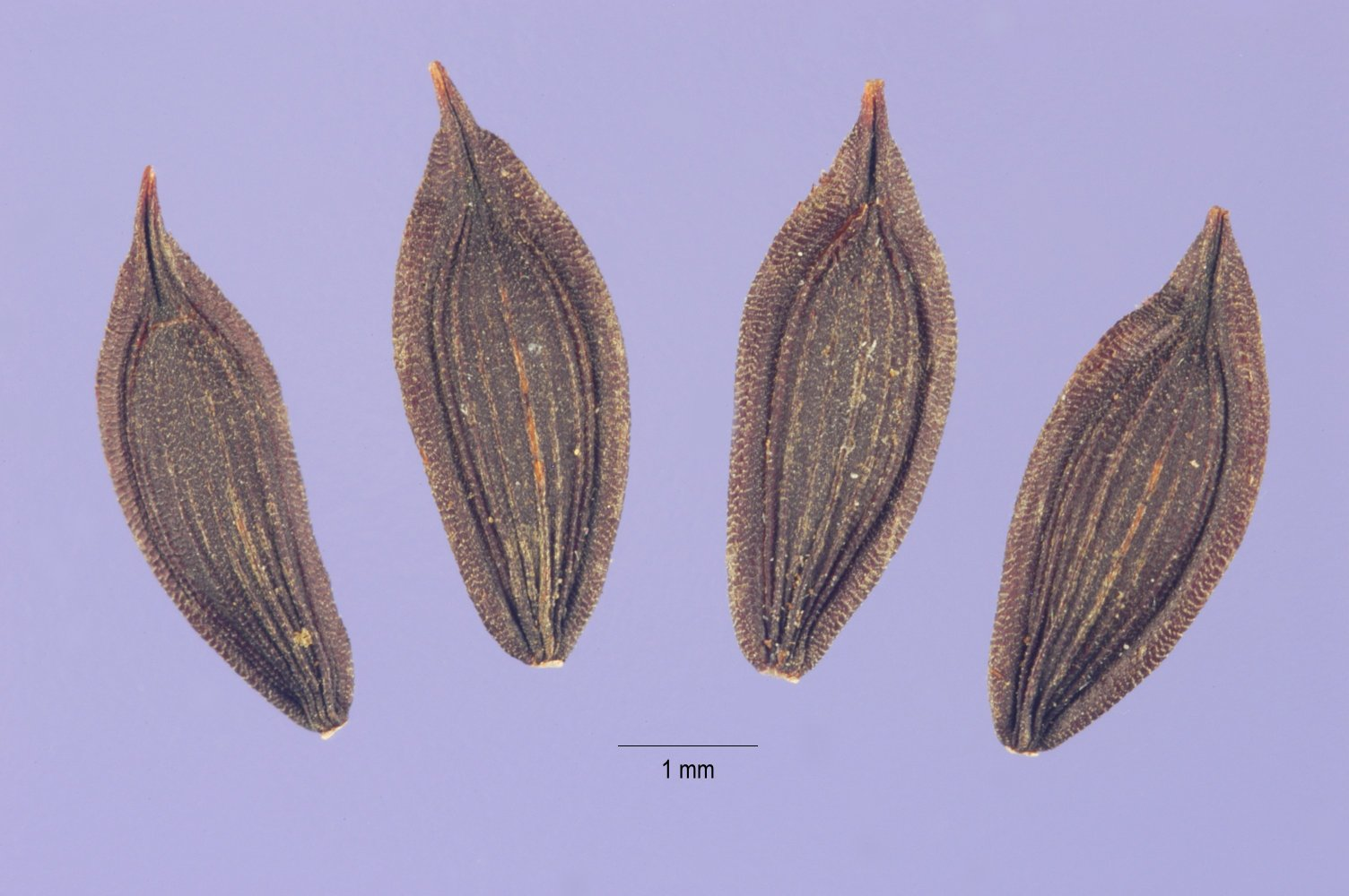 Lactuca virosa cipselae with beaks removed.